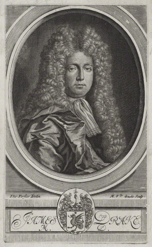 Portrait of James Drake (1667–1707), English physician and political writer.